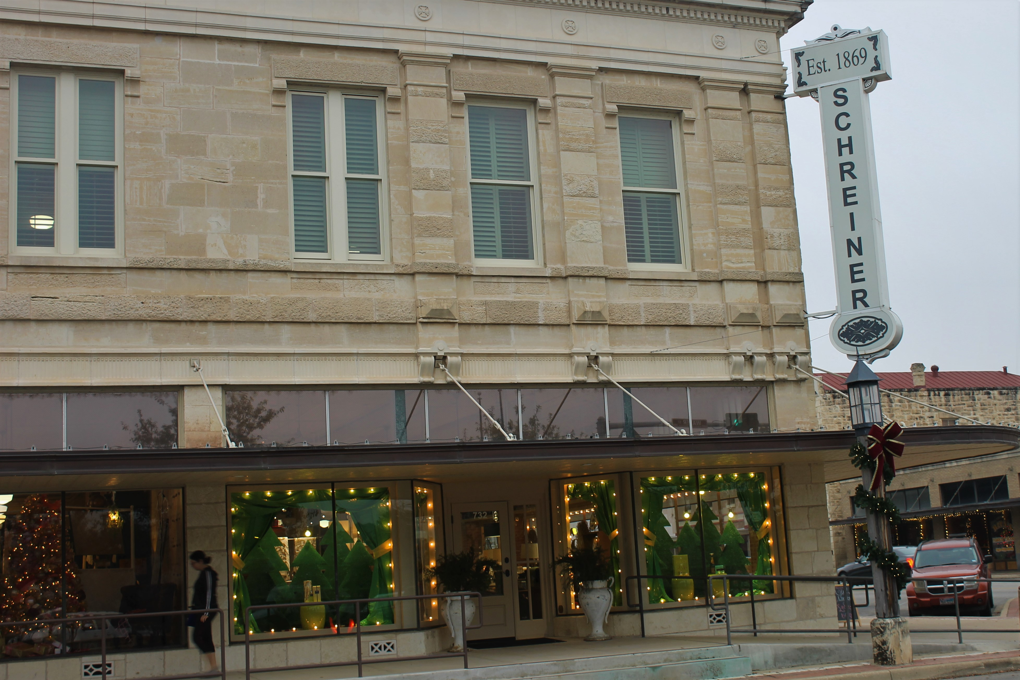 Schreiner's Department Store, long-time fixture in Kerrville, TX